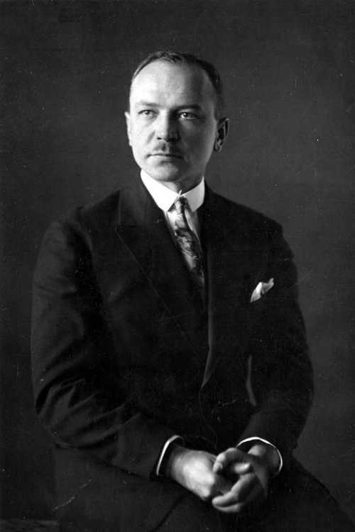 Roman Pikiel